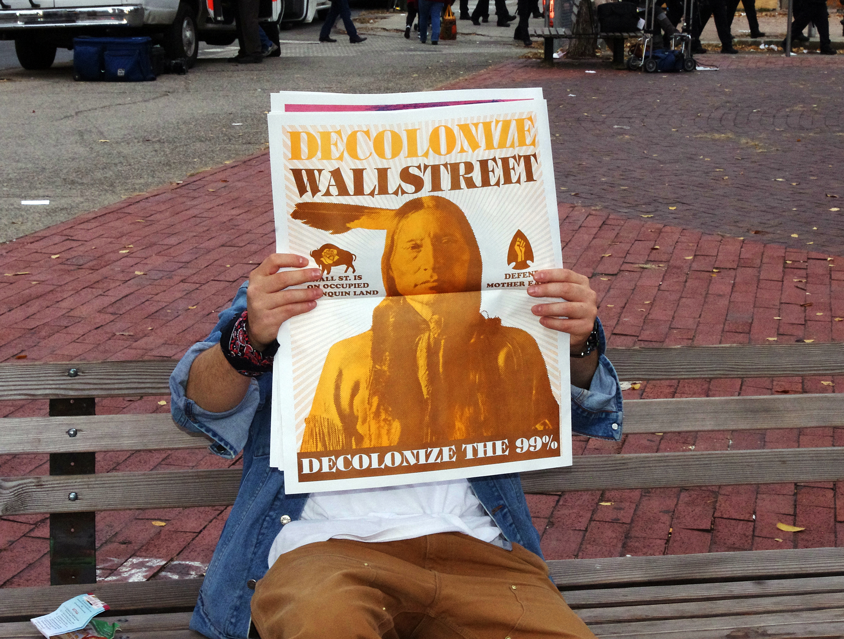 Tuesday morning the police evicted the Occupy Wall Street protesters and cleaned the park. Tensions ran high that morning - scenes from an empty Zuccotti around 9:15 a.m.; the regrouping of the protesters at a lot on Canal & 6th Street around 10:15 a.m.; and then their return to Zuccotti to confront the police around 11:00 a.m.